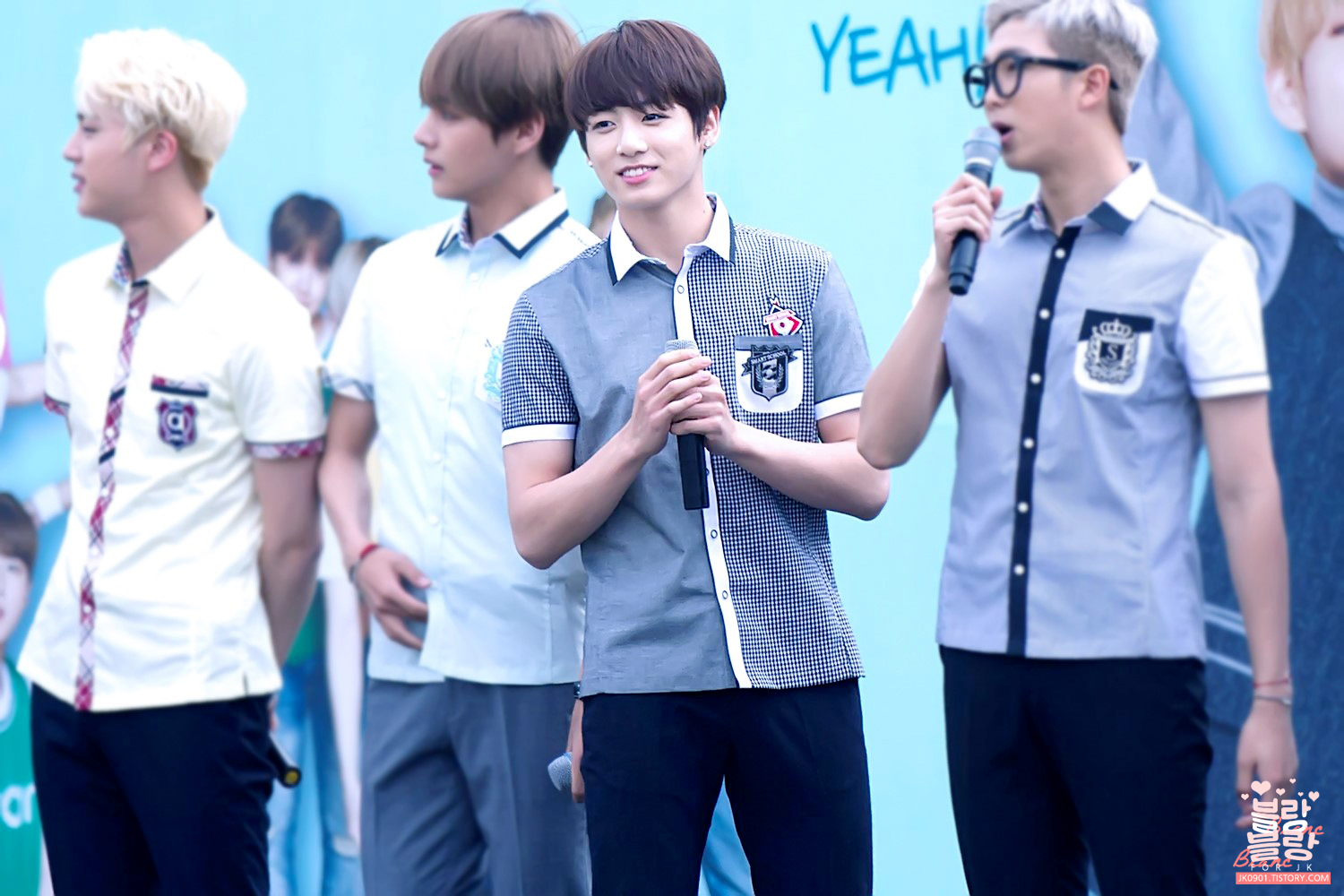 Bangtan Boys (BTS) at a Smart Uniform event in Seoul on June 4th, 2016. From left to right: Jin, V, Jungkook and Rap Monster.